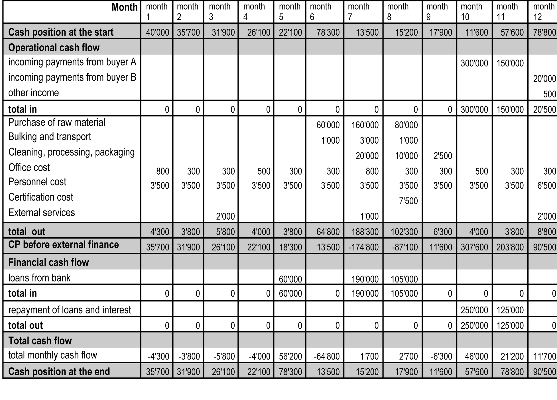 Table 6: Example of a cash flow calculation. Belongs to The Organic Business Guide.